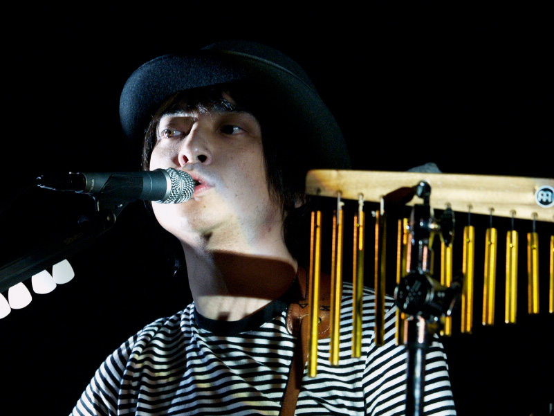 Cornelius at moers festival 2007 self made/own work, may 26, 2007 photo: nomo/michael hoefner